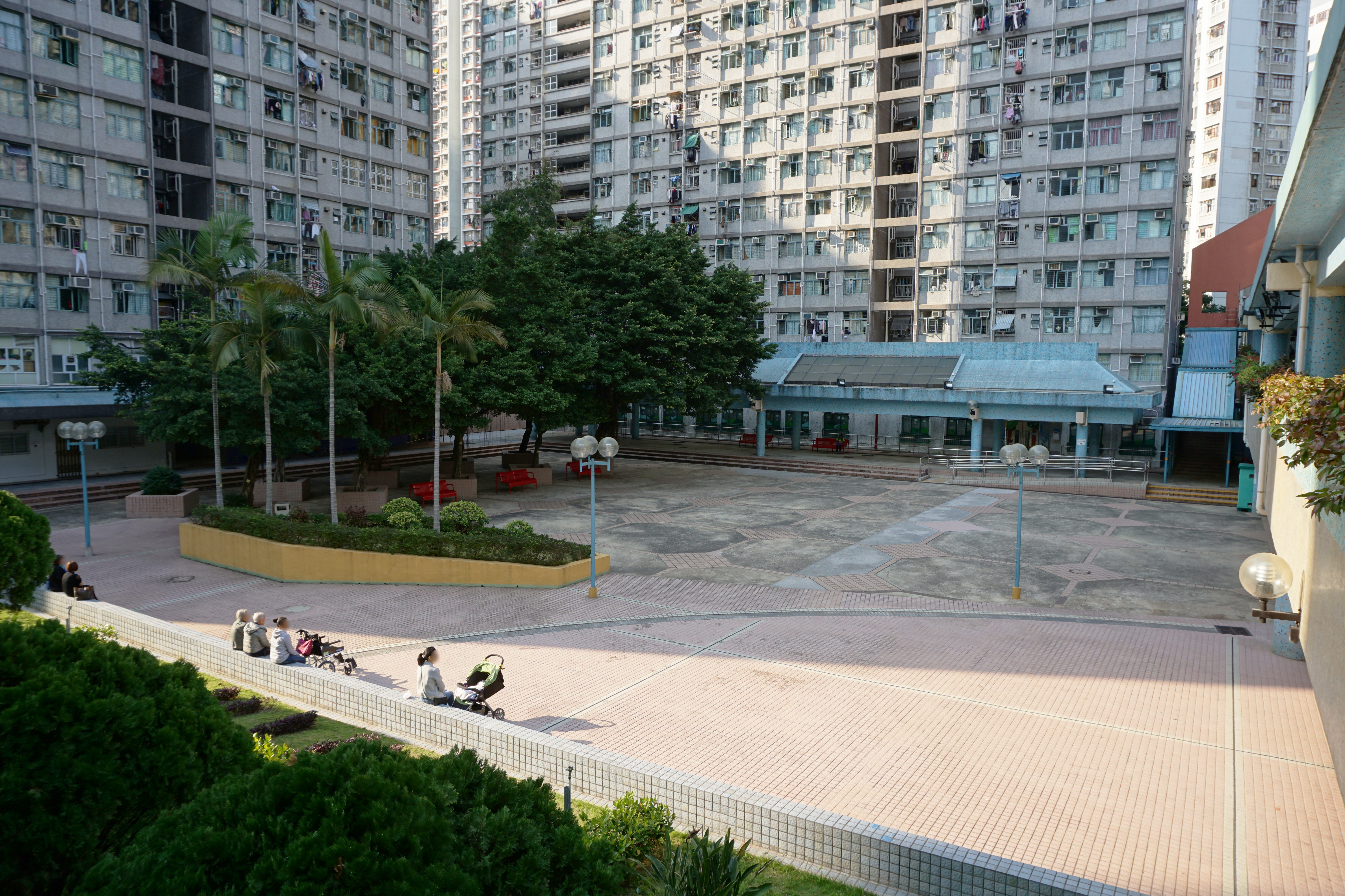 Wang Tau Hom Estate in Lok Fu, Hong Kong.